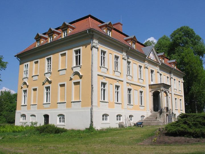 Palace in Stülpe, a village (part) of the municipality Nuthe-Urstromtal in Brandenburg, Germany. The palace was built in 1754 by order of Adam Ernst von Rochow.